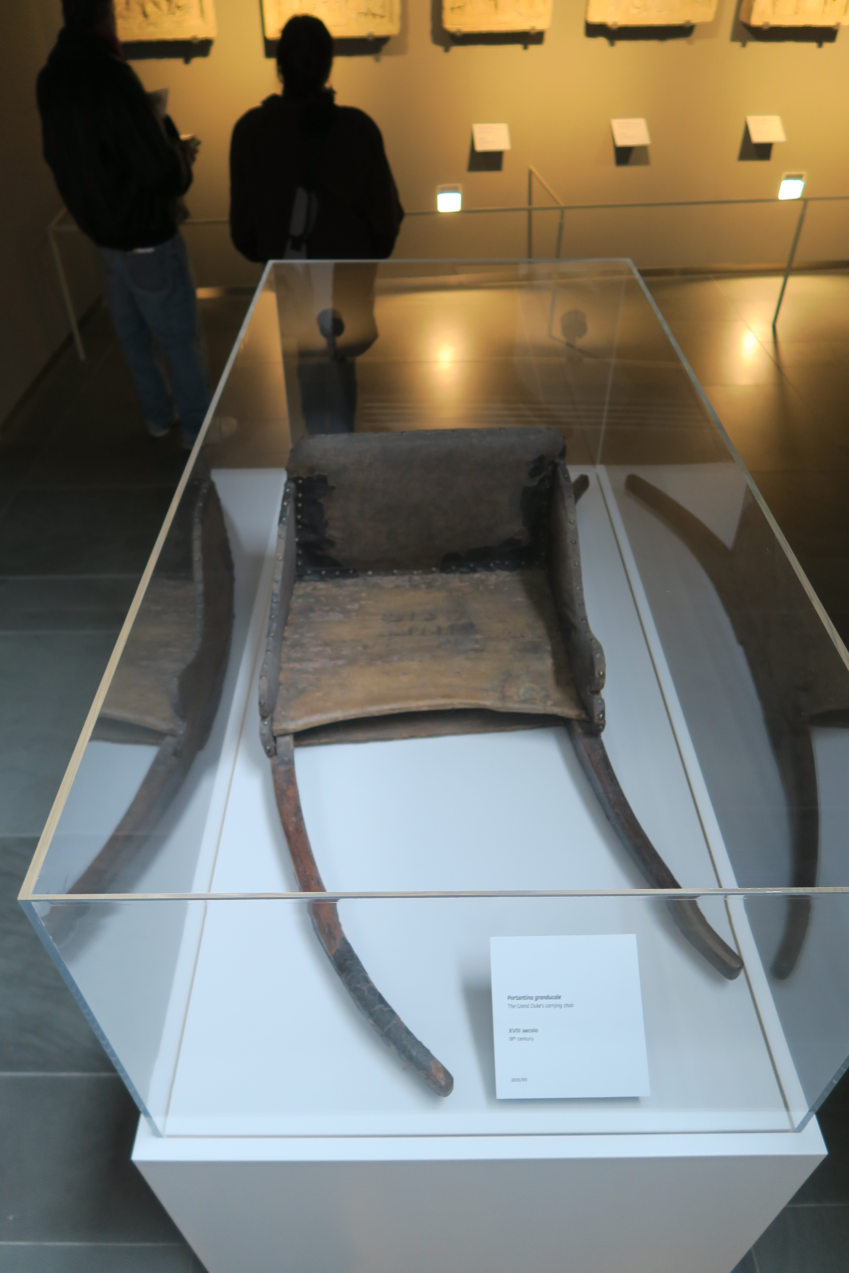 Cosimo III de' Medici (Grand Duke of Tuscany) carrying chair with curved bars to permit ascent to or descent from the dome, exhibited in the Museo dell'Opera del Duomo (Florence)